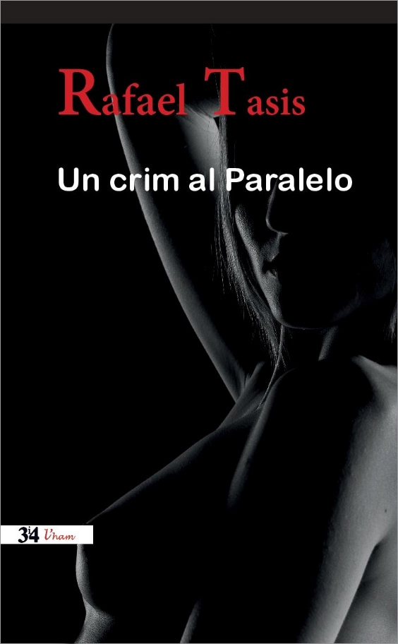 Female nude photo with low-key lighting.